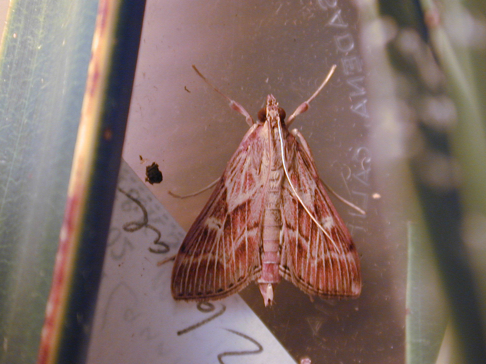 Cocos nucifera (Omioides blackburni 020511 1). Location: Maui, Launiupoko